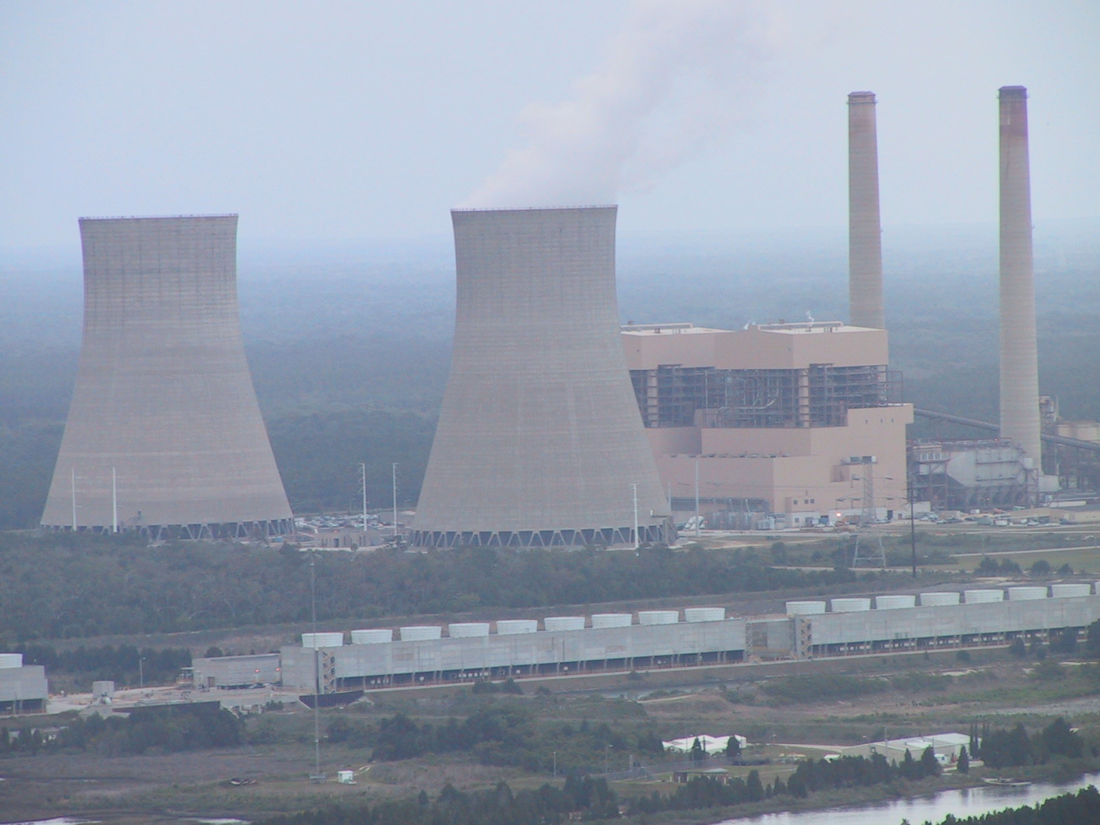 Crystal River coal power plant, April 2002